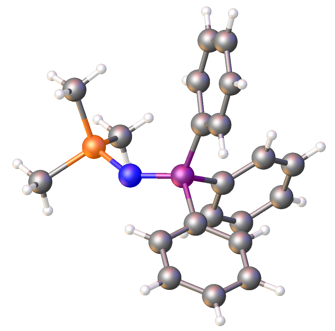 Structure of Ph3PNtms